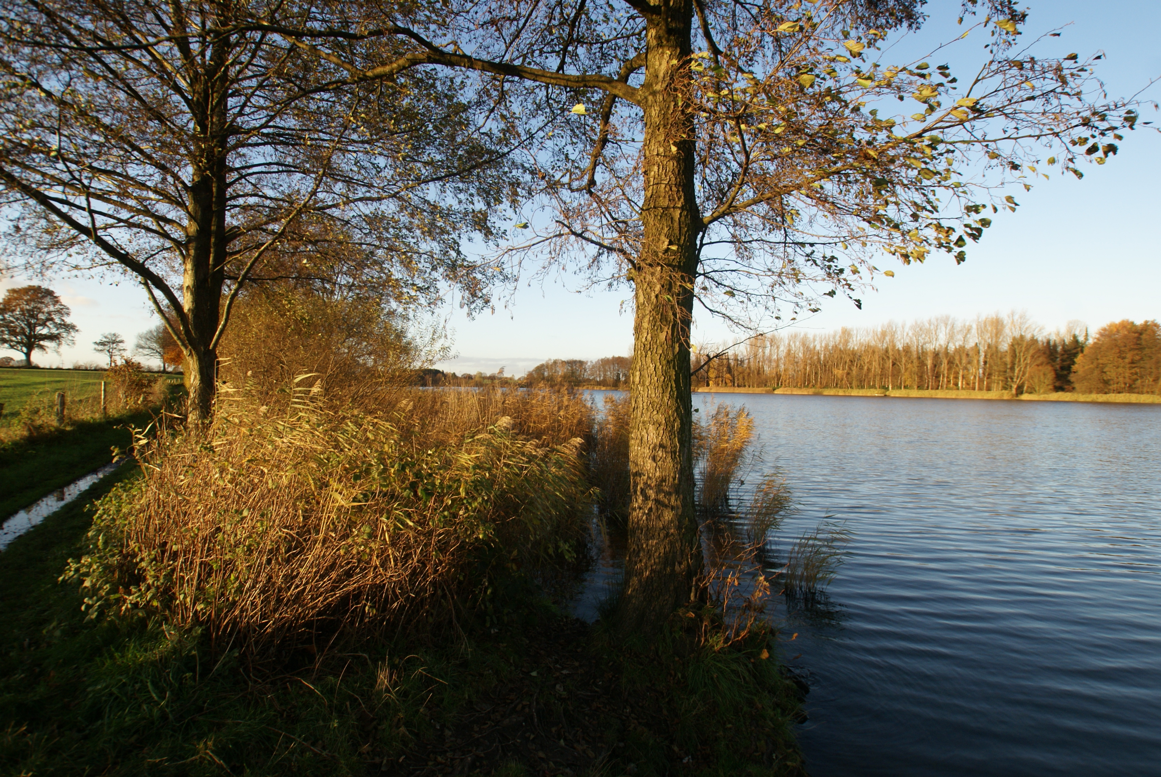 Itzstedt, Germany: The Itzstedter See and the inundated cycle path